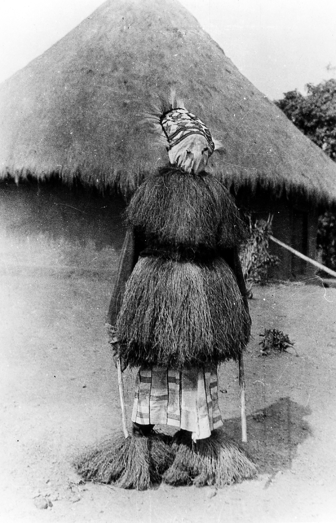 A Masked Poro dancer, The Secret Society Wellcome Images Keywords: Anthropology; magico-religious; Ethnography